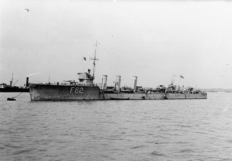 Photograph of British R class destroyer HMS Thisbe.